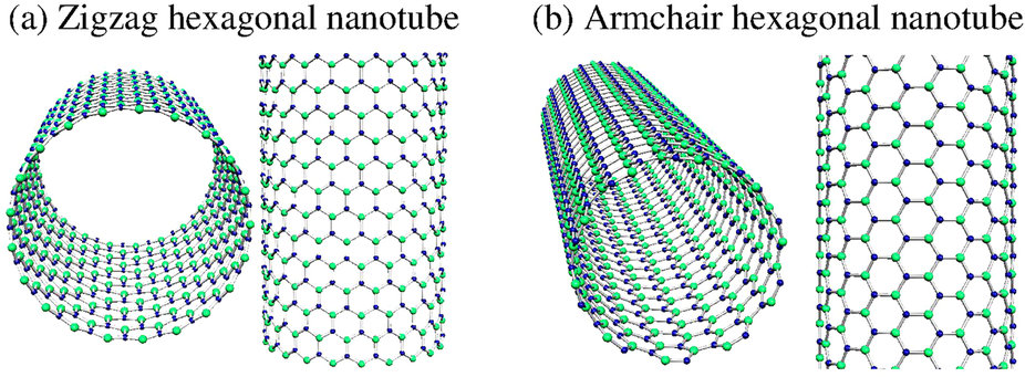 Hexagonal honeycomb nanotubes with (a) zigzag and (b) armchair chiralities